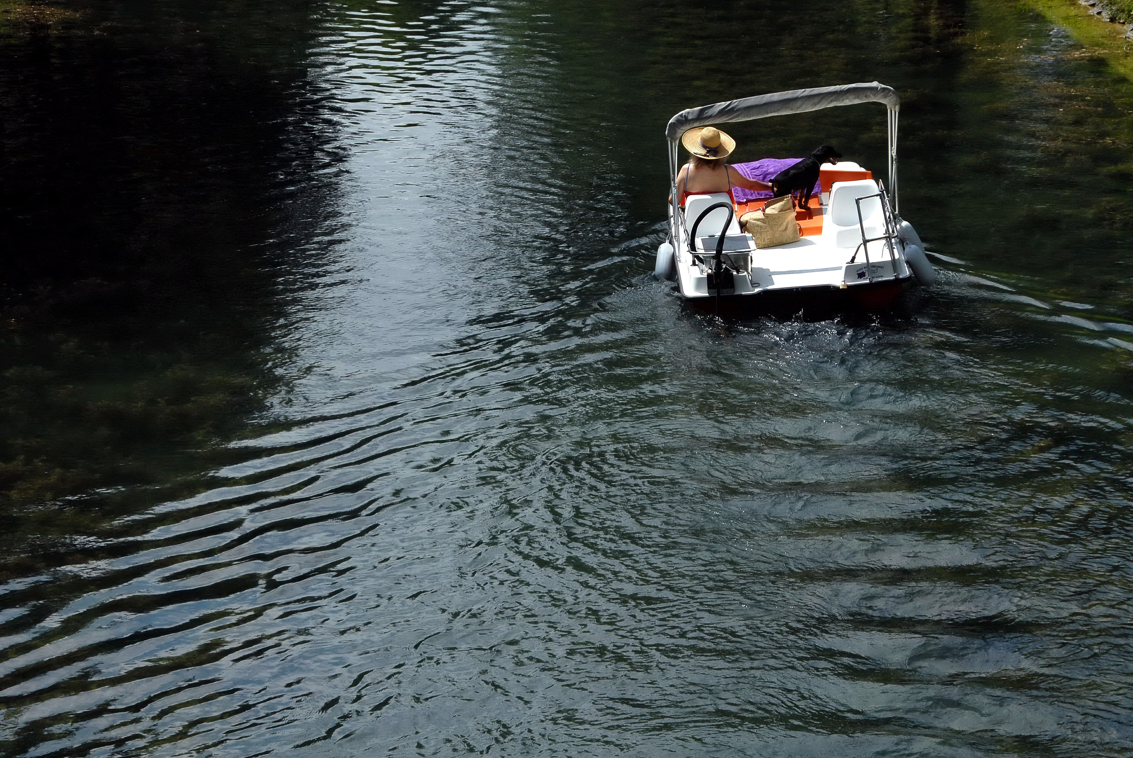 Electro-driven leisure boat gliding on the Lendkanal, the artificial outflow from the Lake Woerth in Klagenfurt, Carinthia, Austria